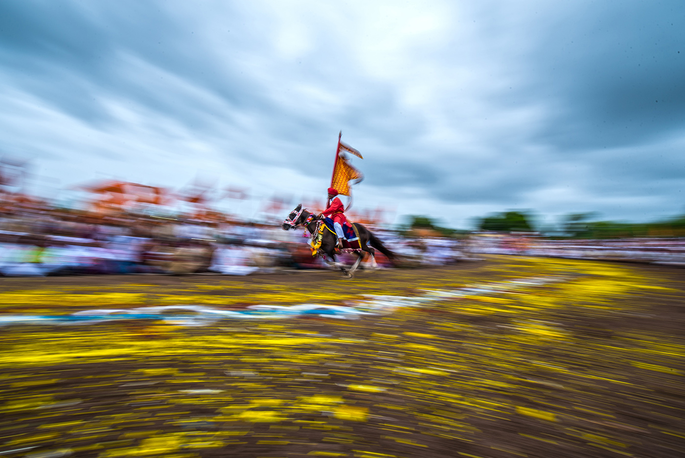 Dnyaneshwar Maharaj Palkhi 2nd Circular ringan. Near, Khudus Phata,Malshiras.